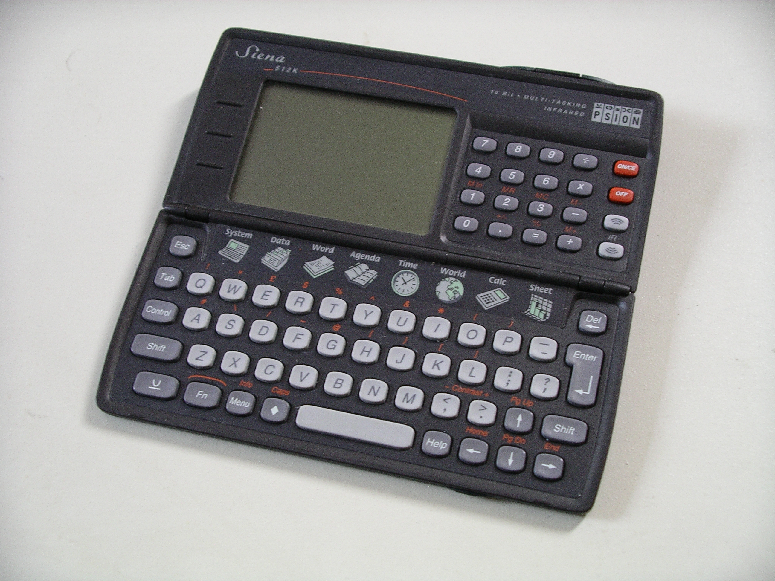 Psion Siena 512k - open showing keyboard and screen.